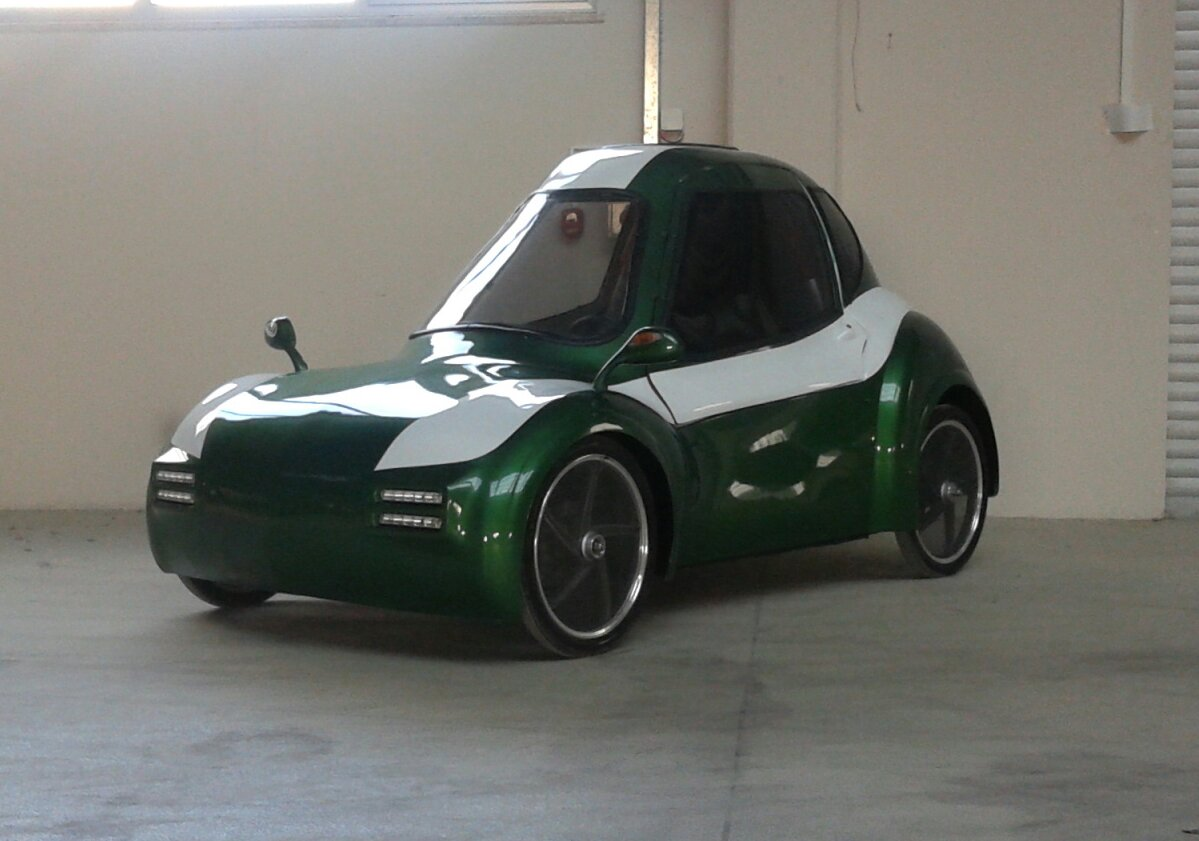 A shot taken in Hacettepe University, Automotive Engineering Laboratory.